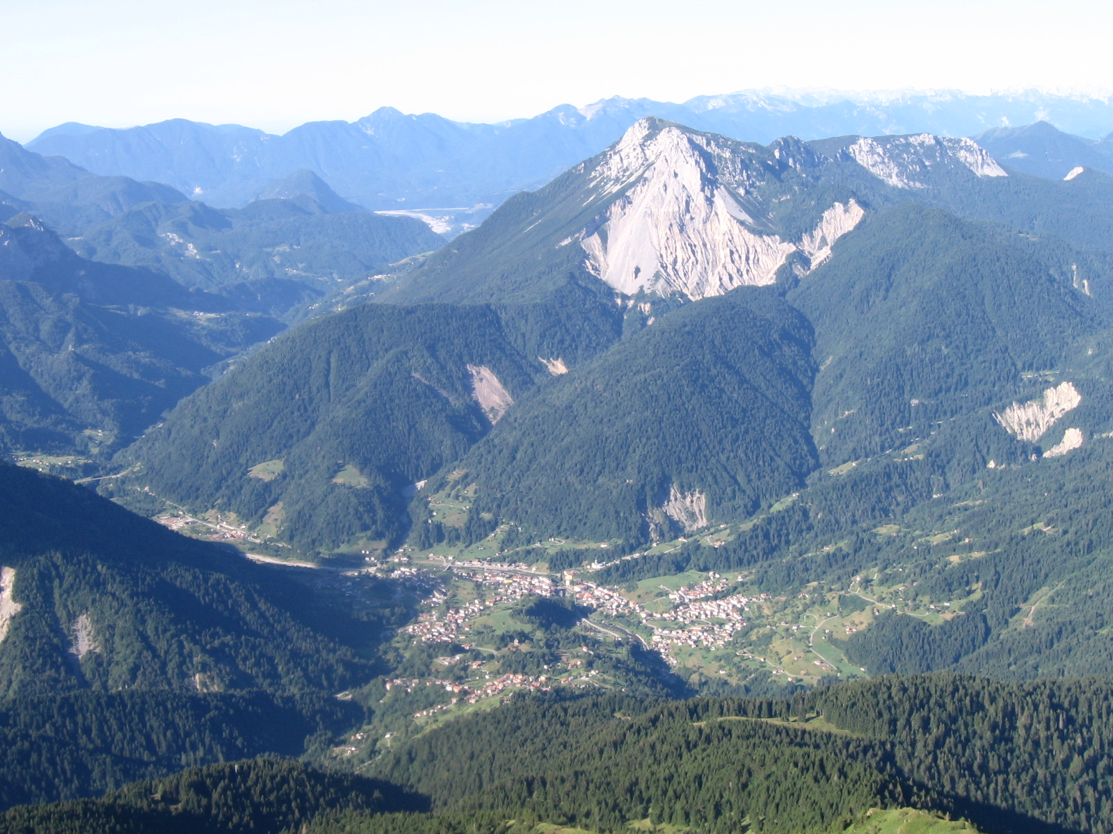 Commune of Paularo / Paulâr with Monte Tersadia (1,959 m), NE Italy, from Monte Zermula.